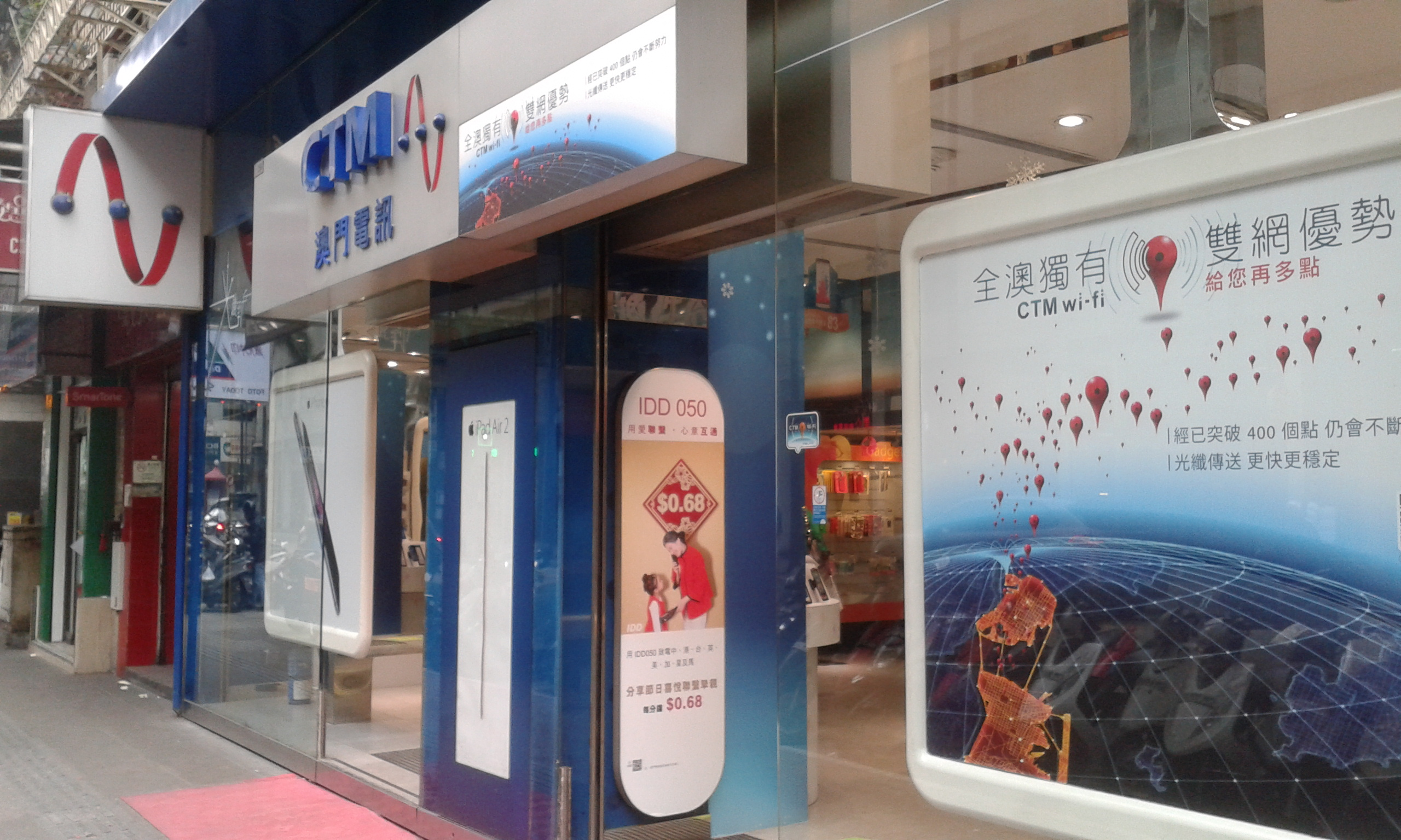 CTM Toi San Store